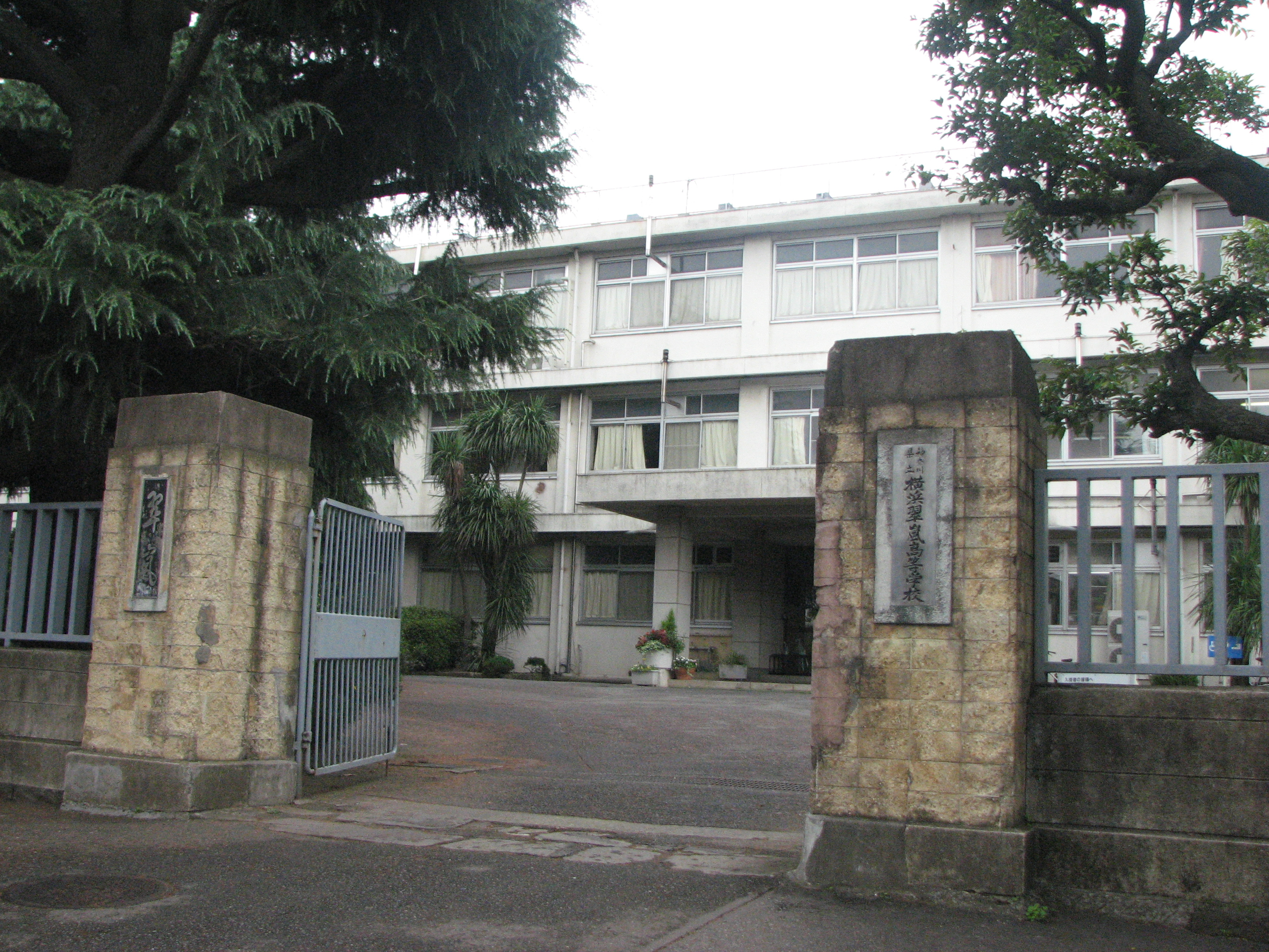 Kanagawa Prefectural Yokohama Suiran High School